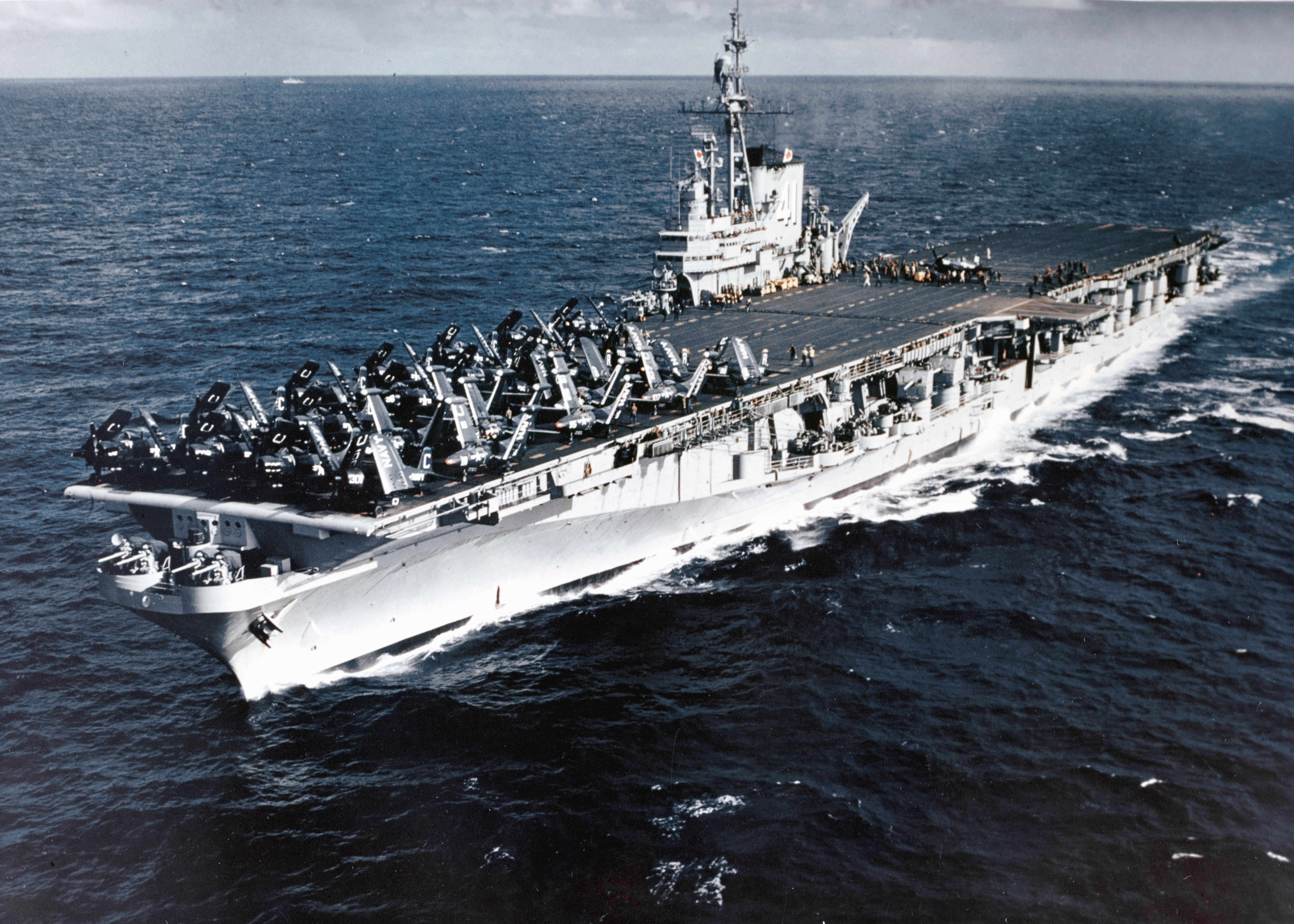 The U.S. Navy aircraft carrier USS Midway (CVB-41) steaming off the Firth of Clyde, Scotland (UK), prior to "Operation Mainbrace" exercises, September 1952. Douglas AD-4 Skyraider, Vought F4U-4 Corsair, and Grumman F9F-2 Panther aircraft from Carrier Air Group 6 (CVG-6) are spotted on her flight deck.